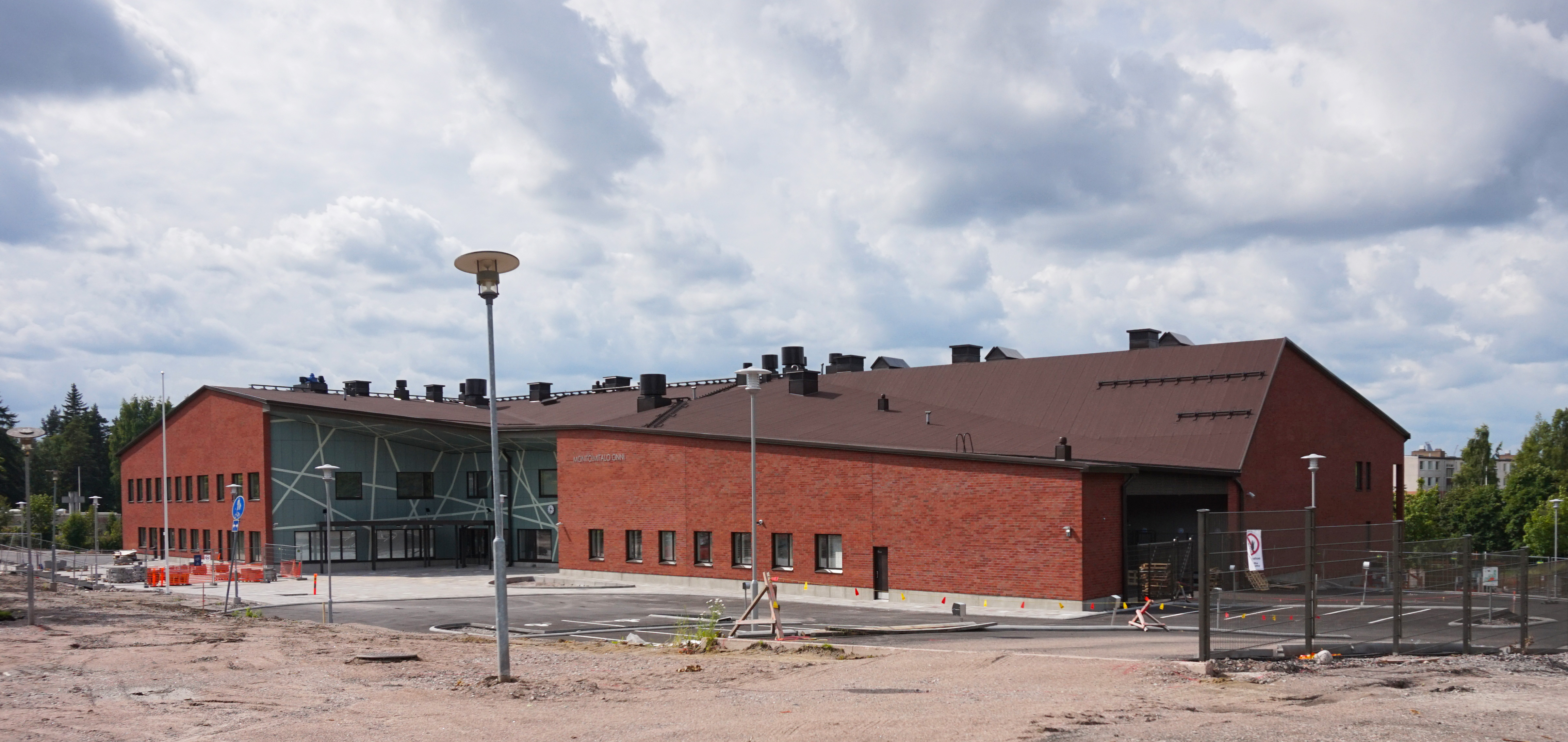 Liipola, Lahti.This photograph was taken with a Sony ILCE-5000